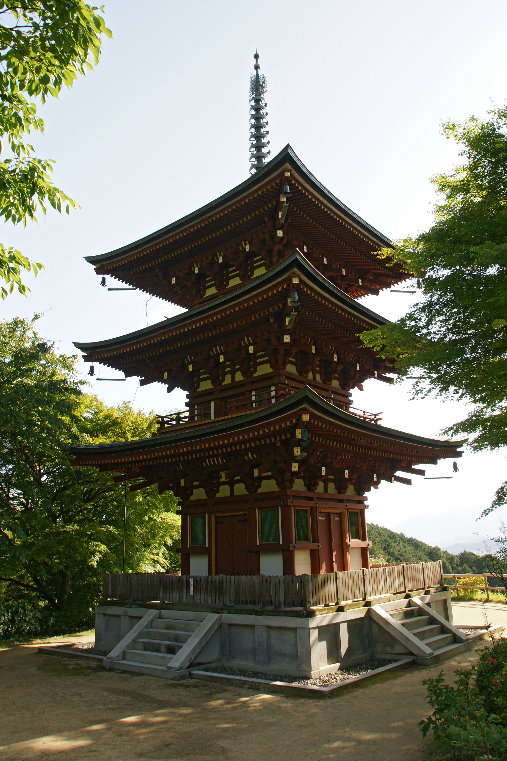 Okadera in Asuka, Nara Prefecture, Japan.